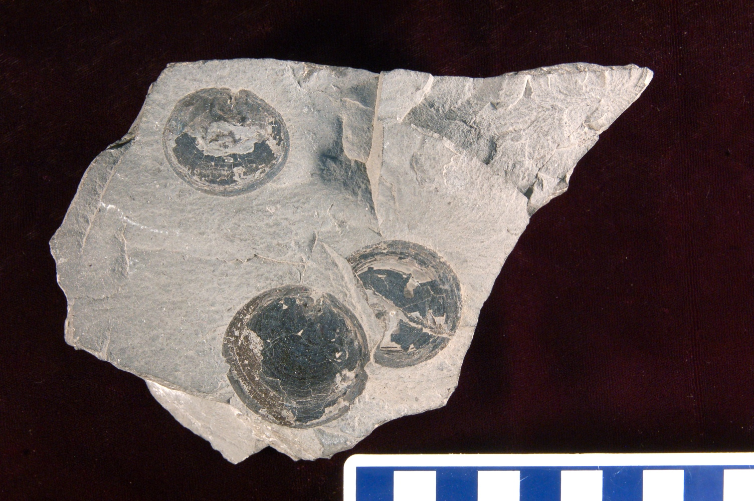 Lingules indéterminées, d'âge ordovicien supérieur, Groupe de Trenton, Formation de Neuville, Membre de Saint-Casimir. Neuville (Québec), Canada. Spécimen MPEP407-09